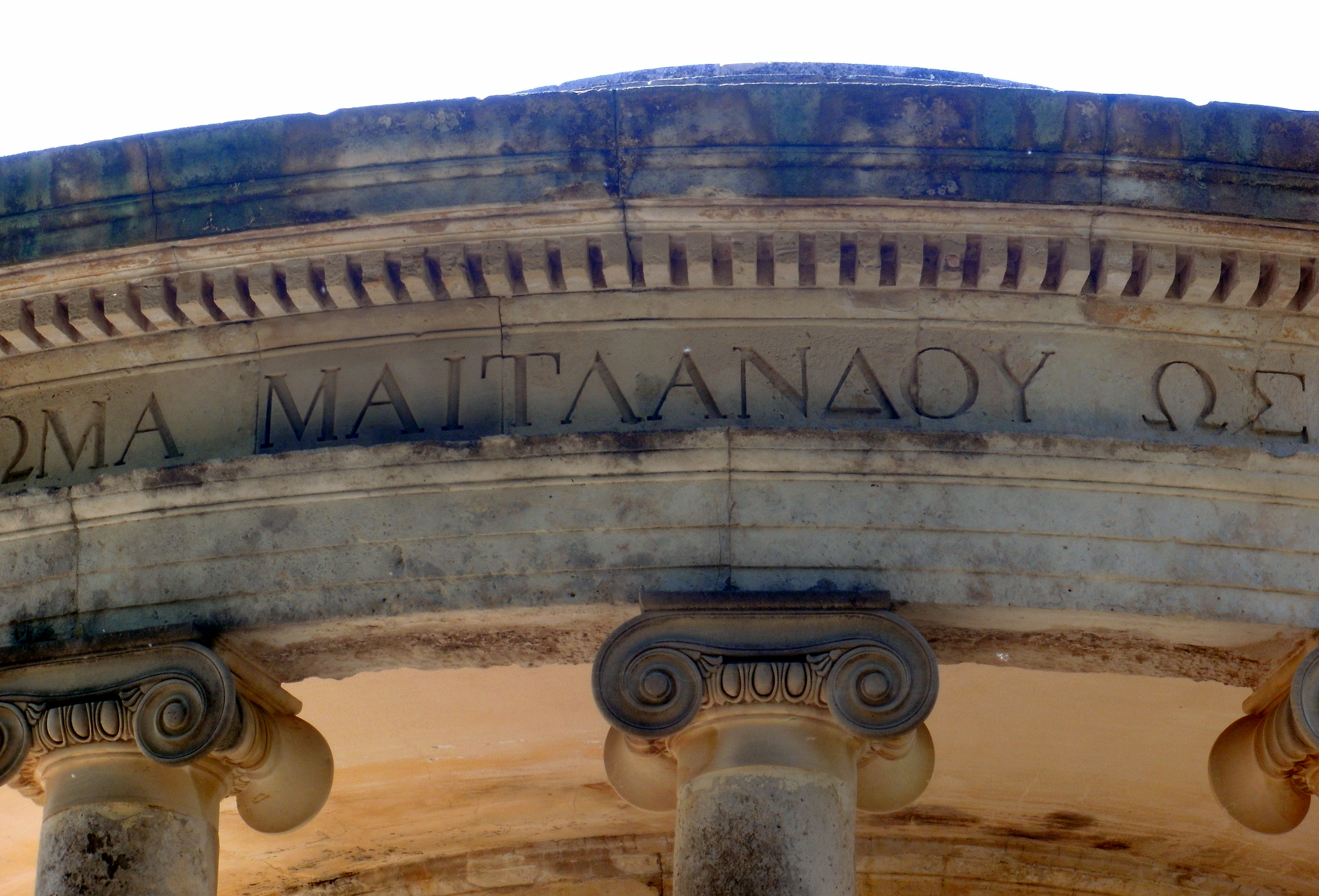 Maitland Monument (Corfu): Sir Thomas Maitland's name in the inscription